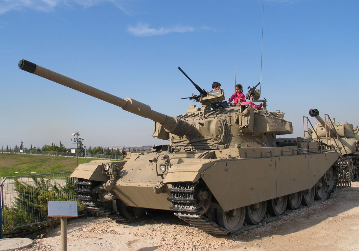 Description: Centurion (Shot Kal Gimel) MBT in Yad la-Shiryon Museum, Israel. Source: Photo by me, User:Bukvoed.